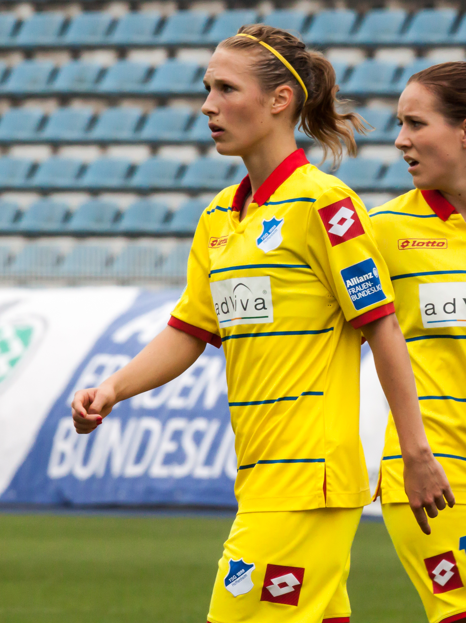 German Women Bundesliga soccer game: FF USV Jena vs. TSG 1899 Hoffenheim, 2014-10-11, at Ernst-Abbe-Sportfeld Jena.